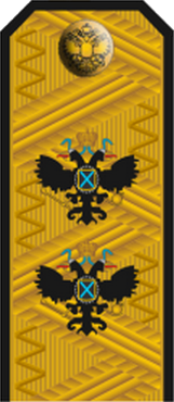 Rank insignia of the Imperial Russian Navy (IRB) until 1917, here "Vice Admiral" .